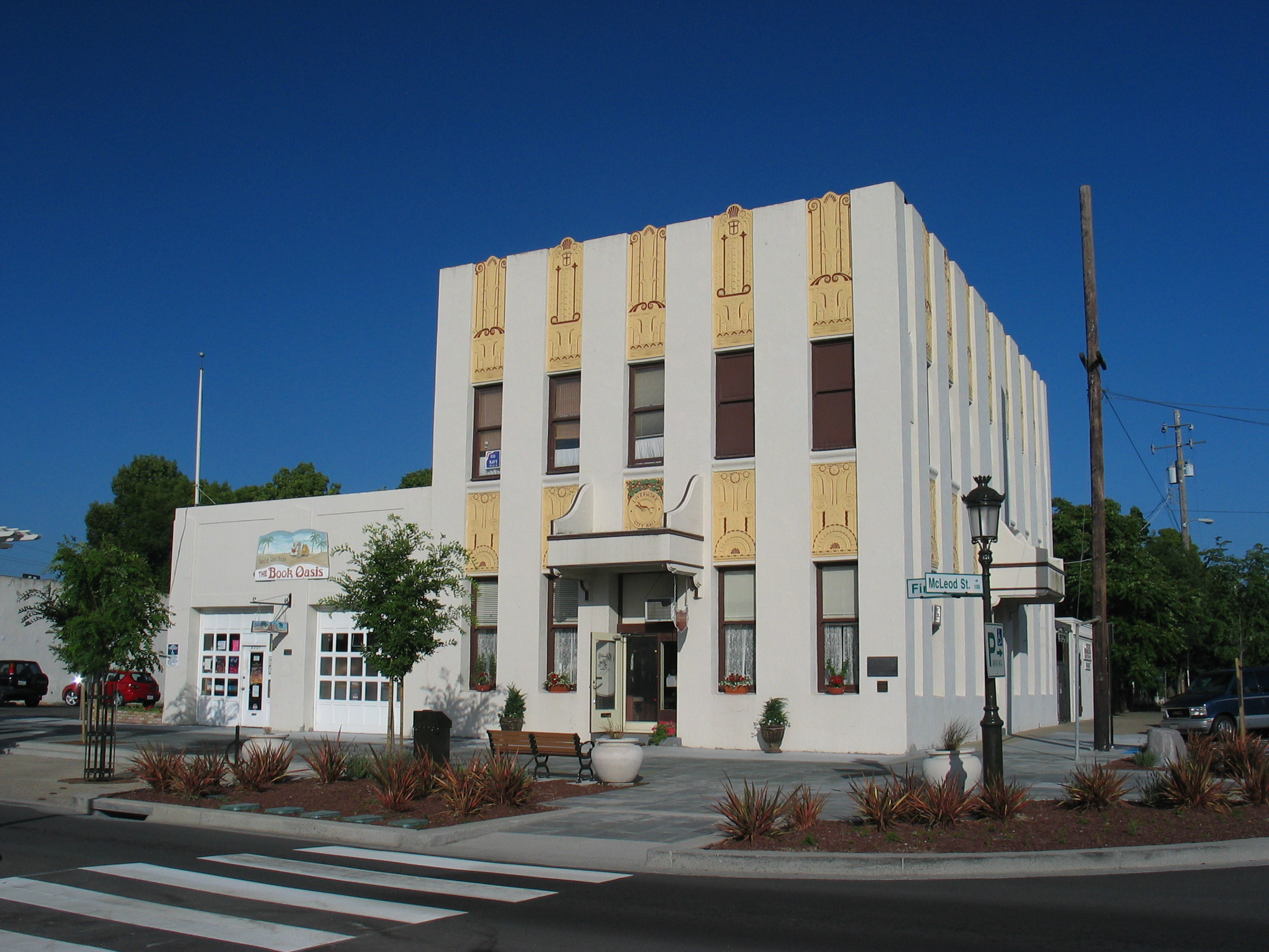 Former fire station in Livermore, CA